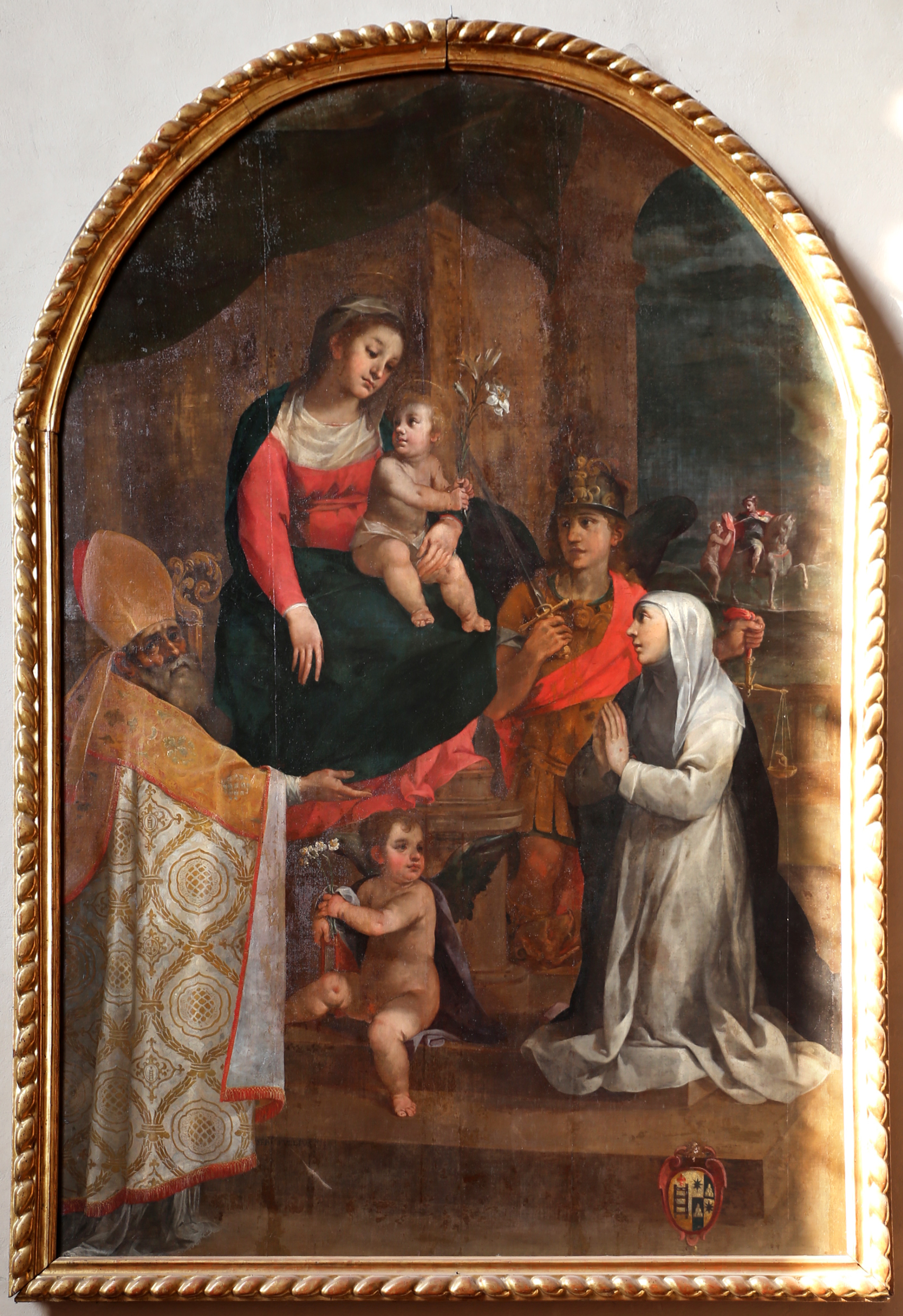 Basilica of San Domenico (Siena) - Nave